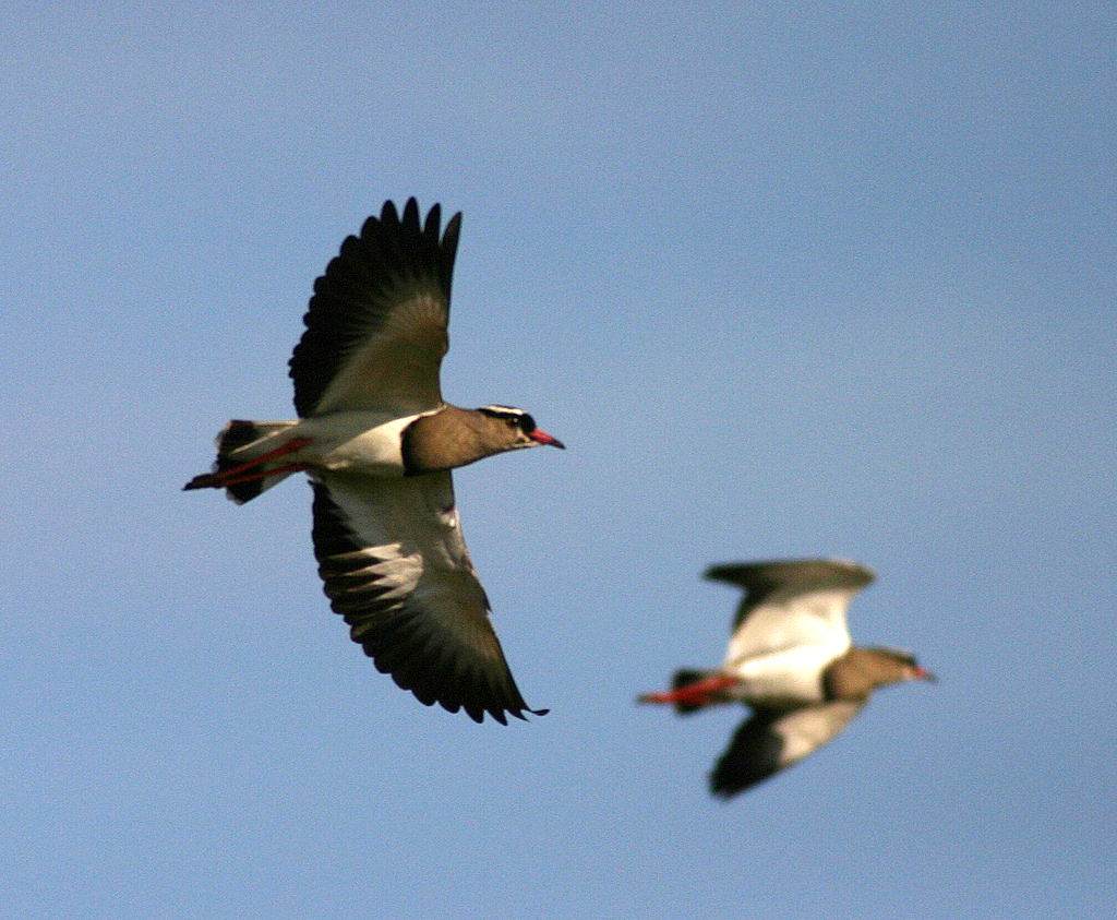 Crowned Plovers Vanellus coronatus in flight at Waylands, Darling, Western Cape